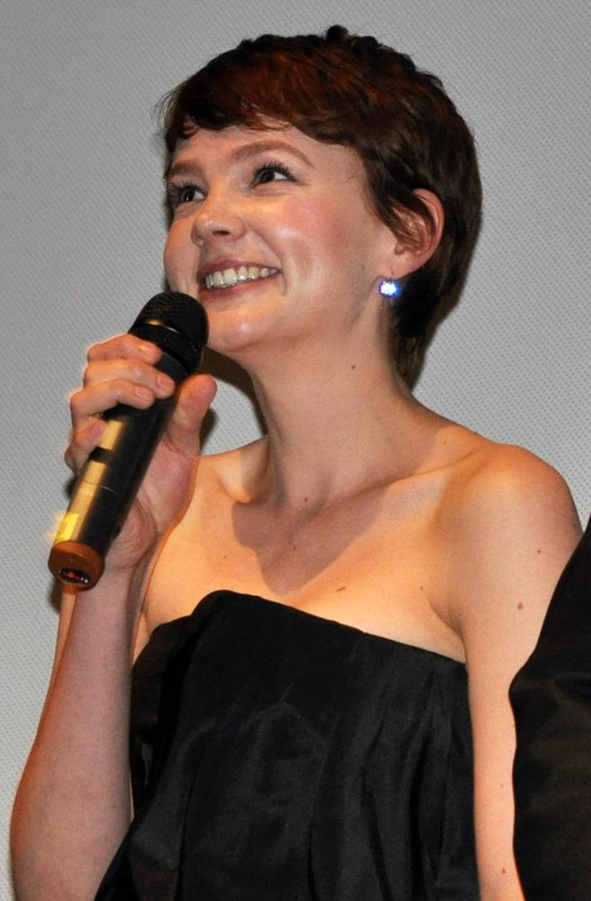 Carey Mulligan during Q&A following the screening of An Education at the Ryerson Theatre.